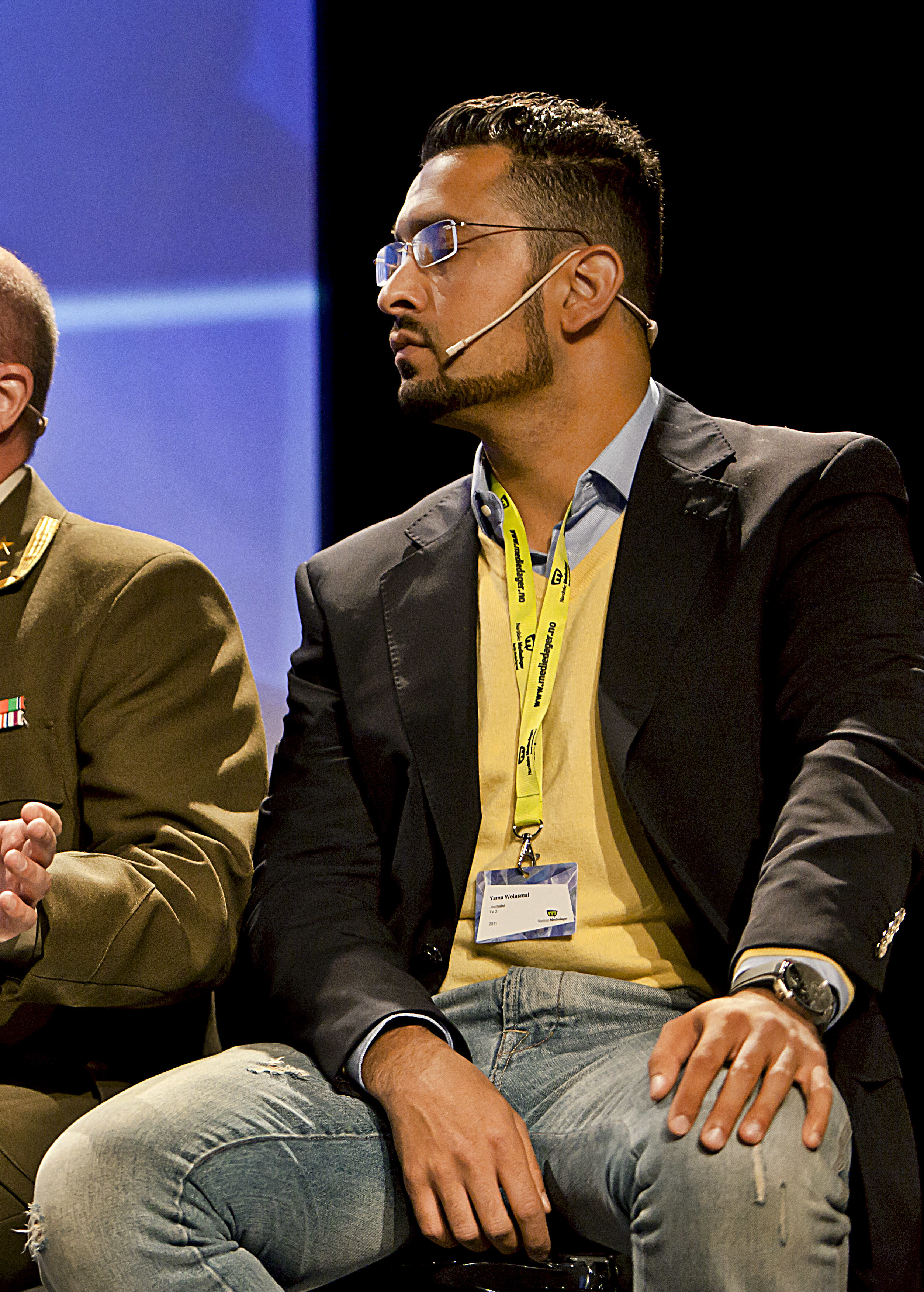 Foto: Jarle H. Moe